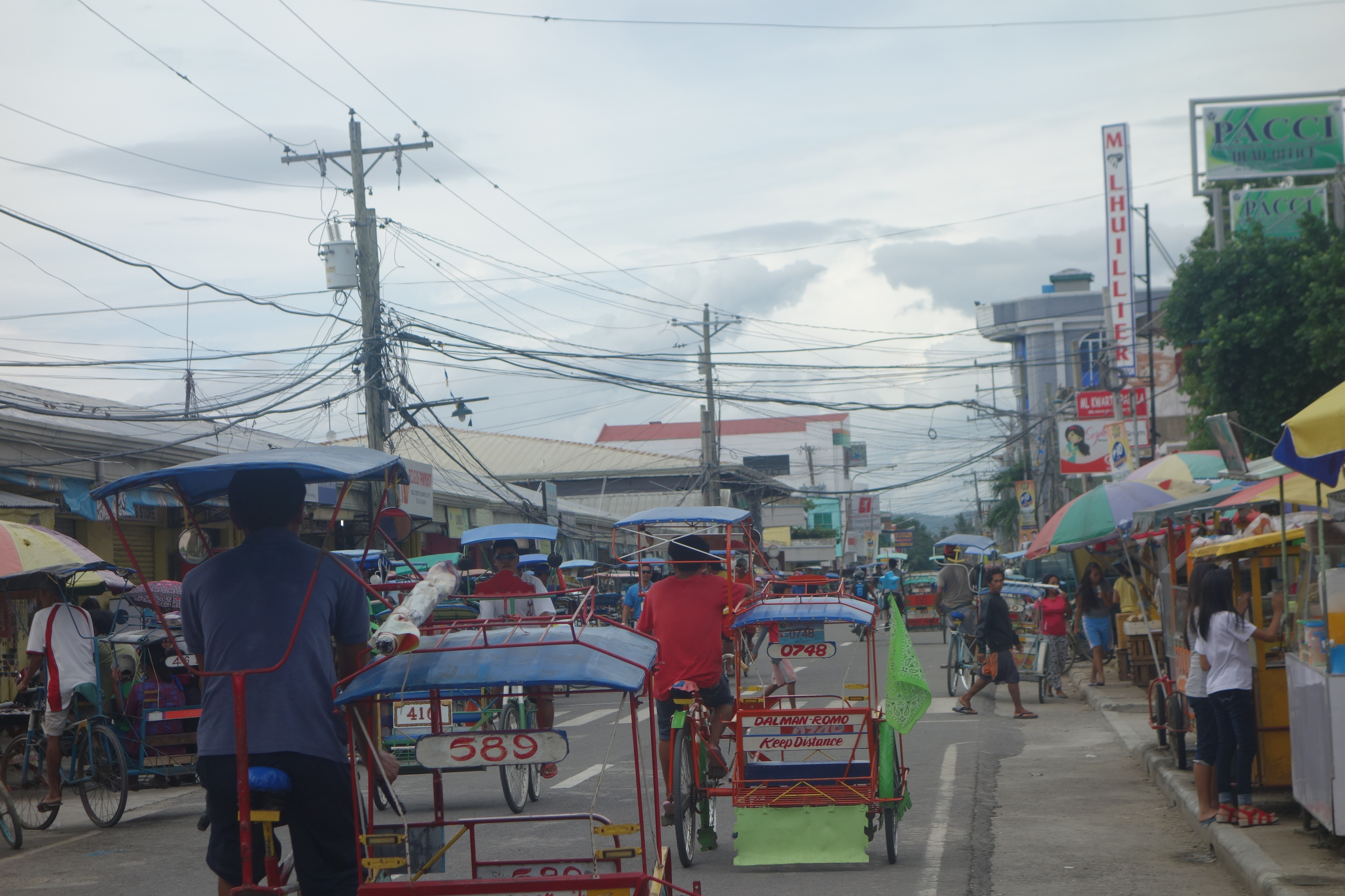 Photo taken on Sunday at the Rizal St, Palompon, PH